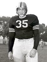 Felix "Doc" Blanchard during his football career at United States Military Academy at West Point.